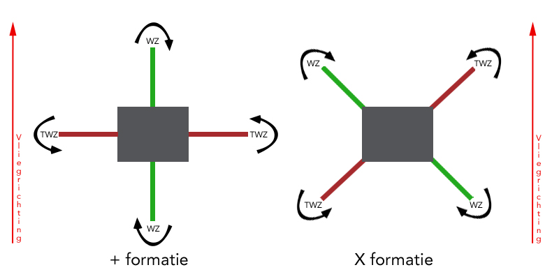 + and X formation of a Quadcopter